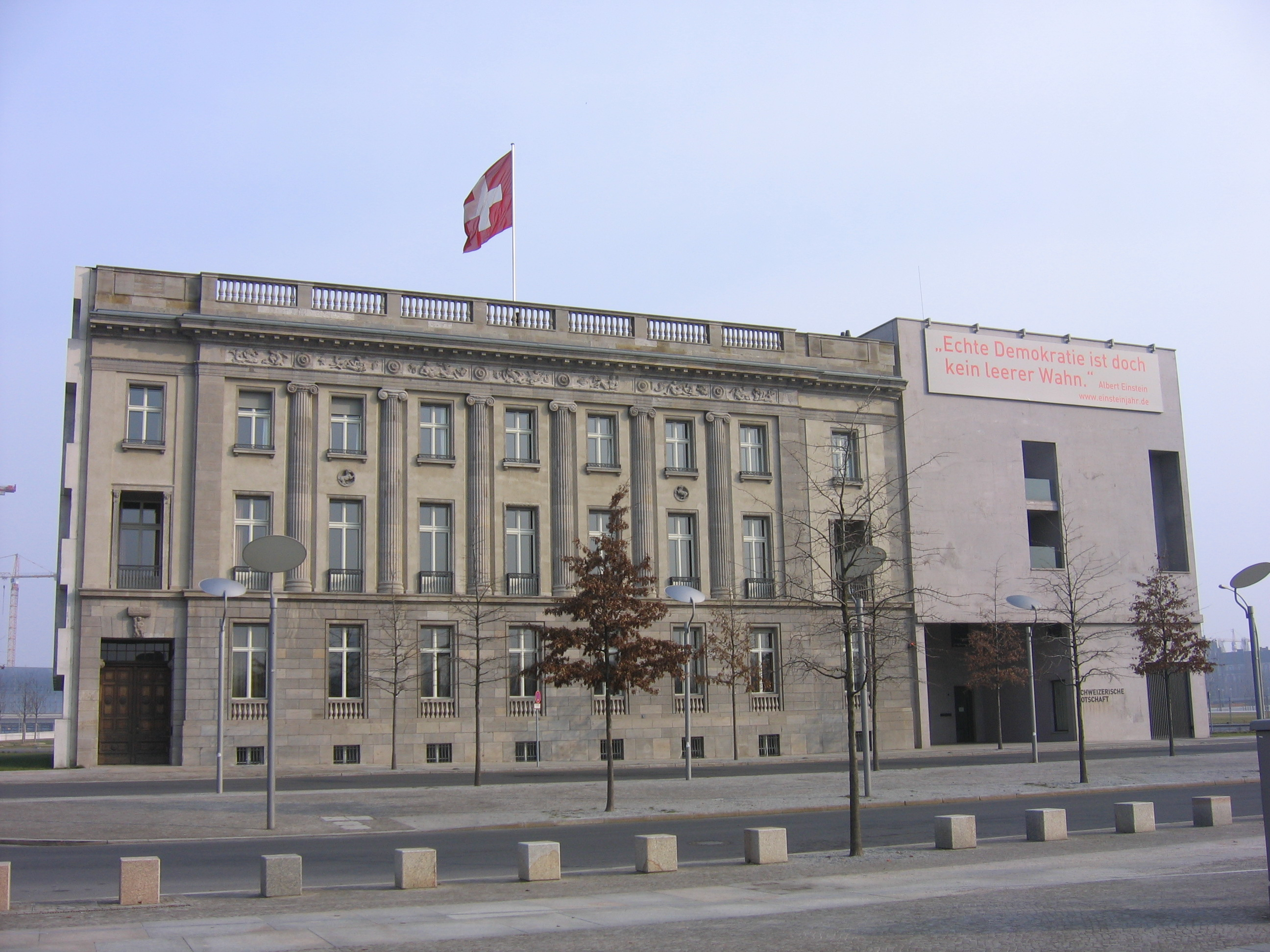 Swiss embassy in Berlin, Germany